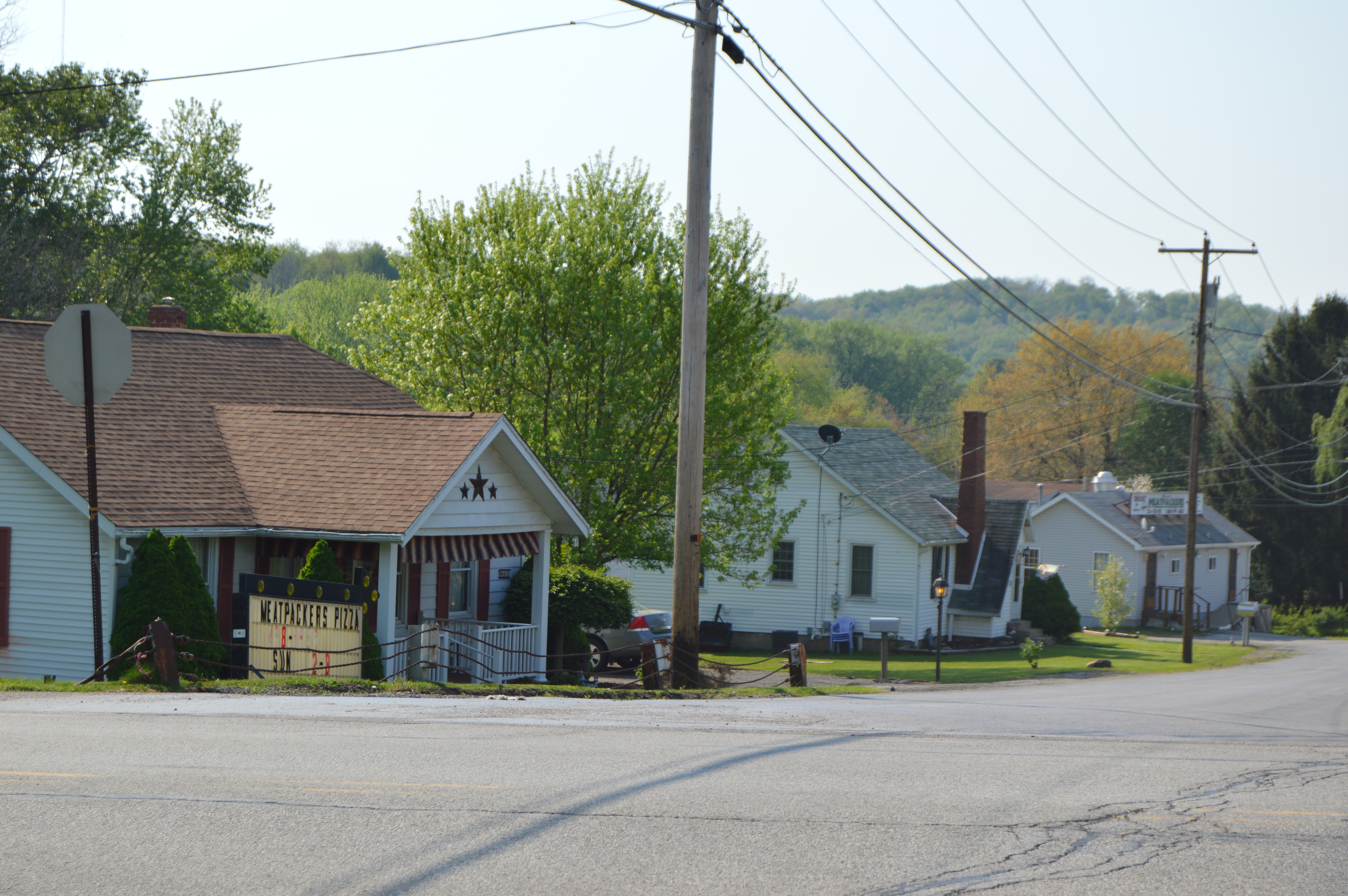 Looking south on Florida Avenue from Pennsylvania Route 56 in Orchard Hills, Pennsylvania, United States.